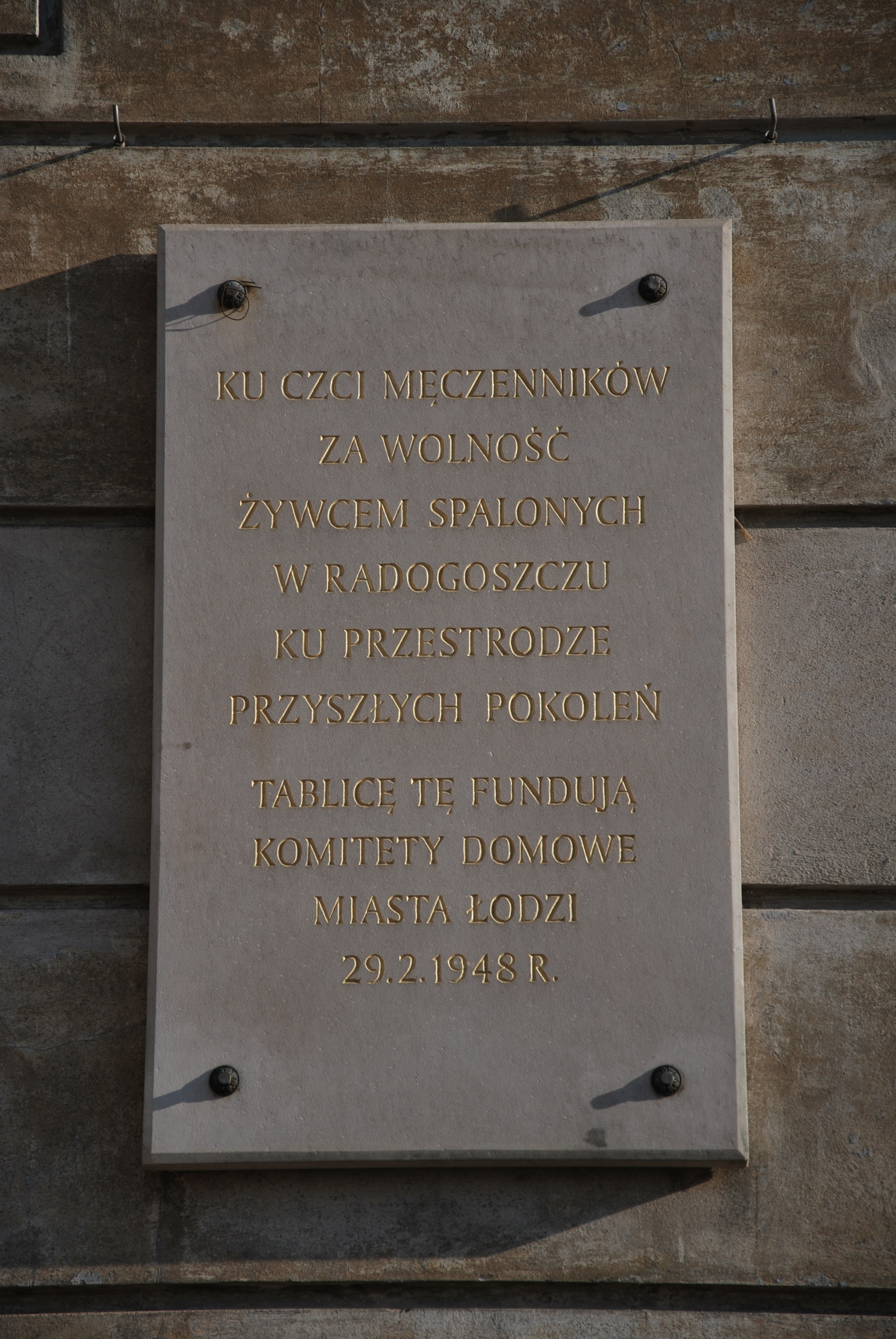 Plaque dedicated to victims of nazi prison in Radogoszcz, Łódź Liberty Square